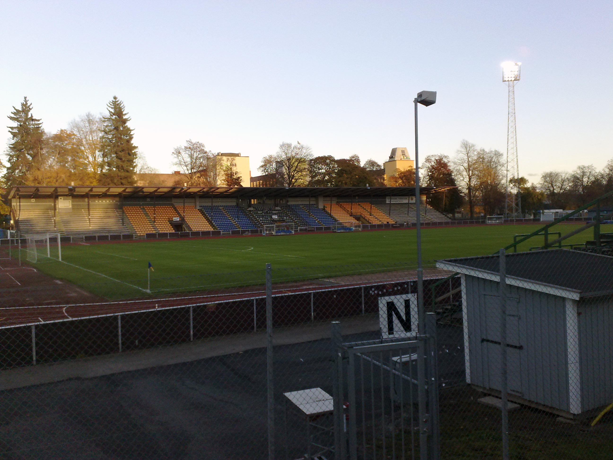 The main stand of the football part of Studenternas IP in Uppsala, Sweden.